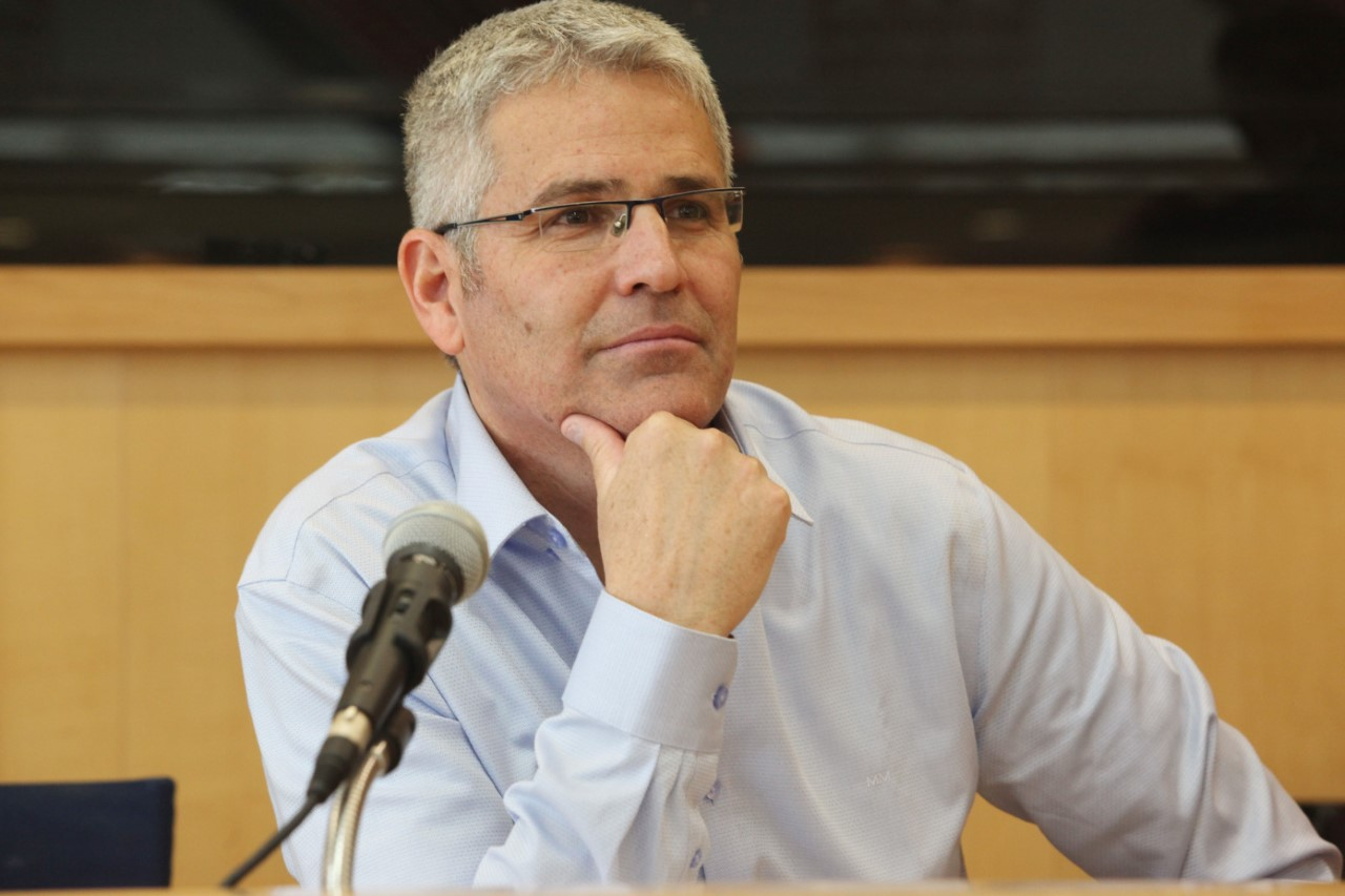 Gur Alroey